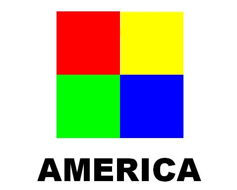 Former logo of Argentine TV channel, América 2. Created with Microsoft Paint and TurboCAD.